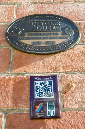 A QRpedia plaque at the Customs House of Fremantle, Australia.